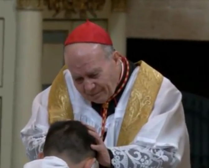 Sua Eminenza De Magistris